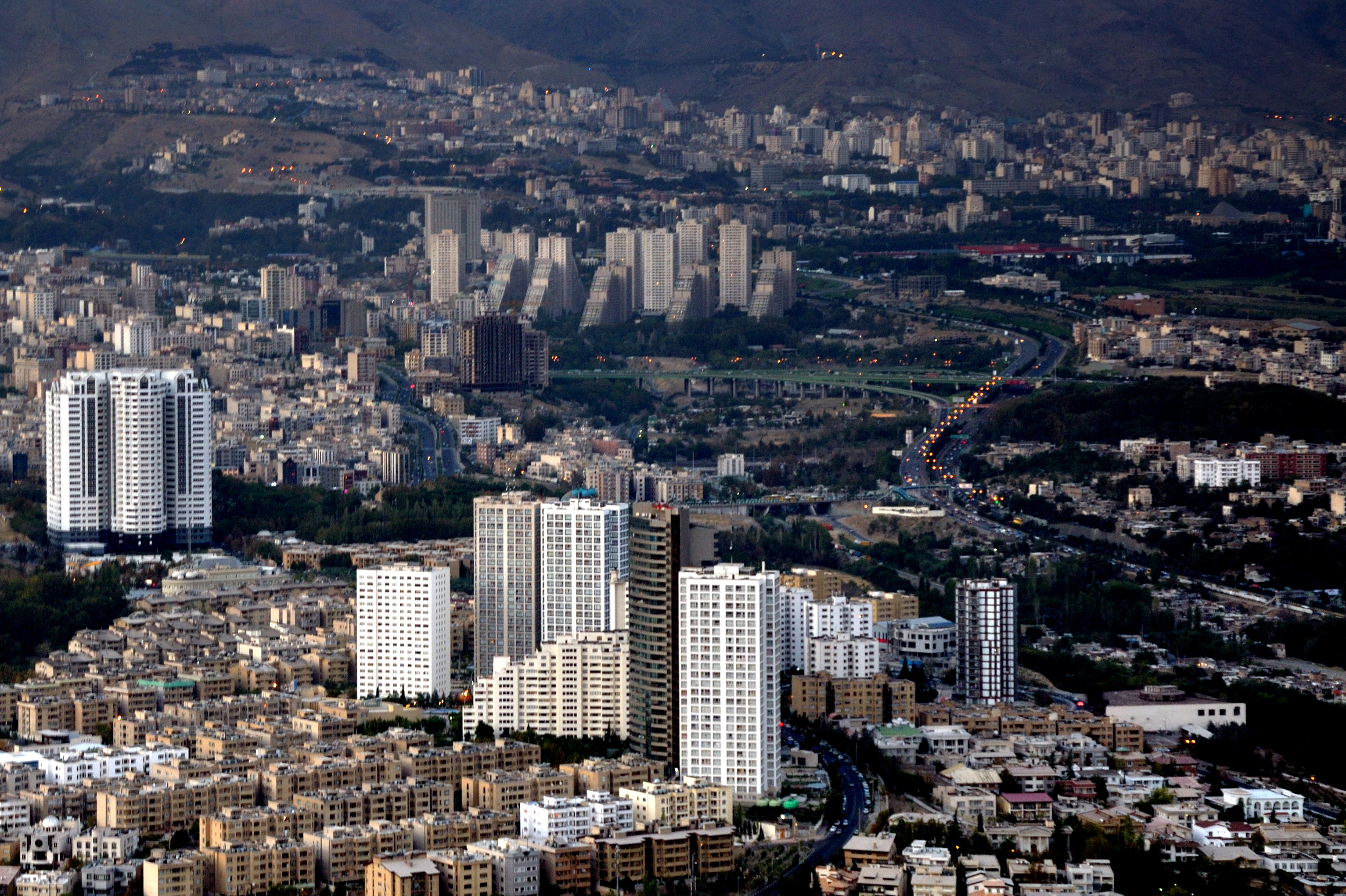 A view from Tehran skyline (North west of Tehran: Shahrak e Gharb district, Atisaz Residetial Towers and Chamran (Parkway) Expressway), Tehran, Iran